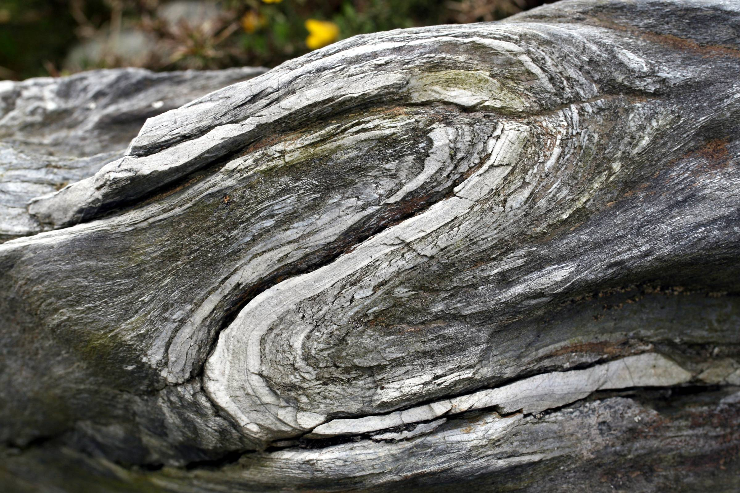 Folds in rocks of the hills of the Monts d'Arrée, near Commana in the department of Finistère in Brittany, France. These are small Z-folds or S-folds (depending on which direction they are viewed) on the limbs of a larger fold. The view is about 10 centimetres across. The dark-coloured rock is schist of the Plougastel Formation, of Paleozoic age, with bands of white quartzite.